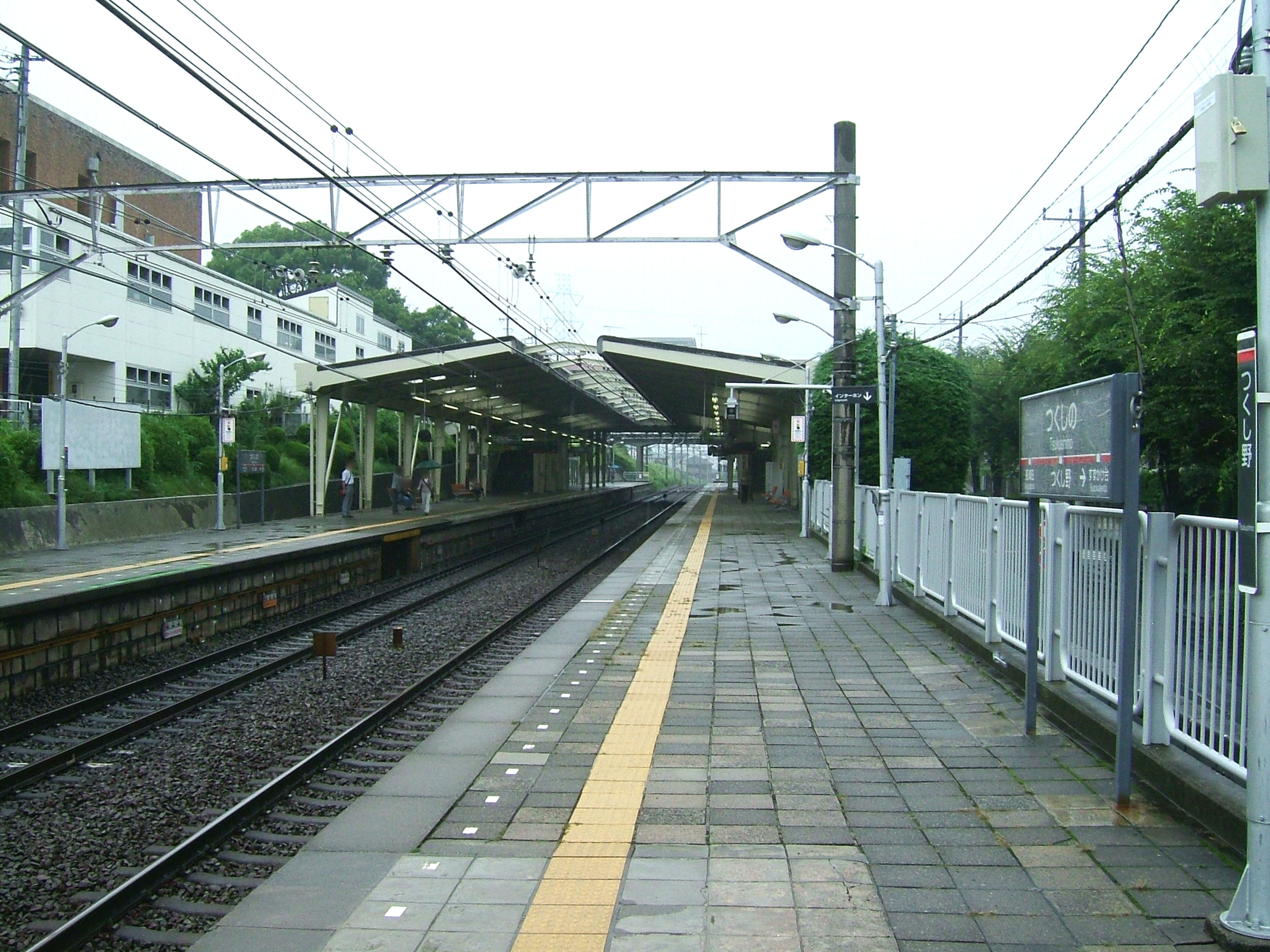 Tsukushino Station platform (Tōkyū Den-en-toshi Line)